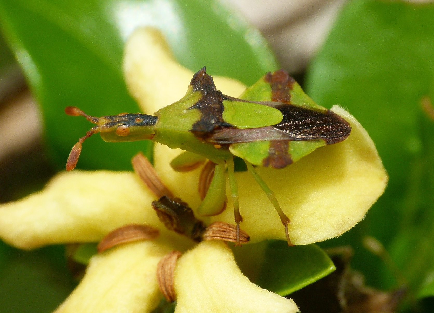 Amblythyreus cf. intermedius (identification courtesy of Rahul Khot, BNHS) Reduviidae: Phymatinae. . Bangalore, India